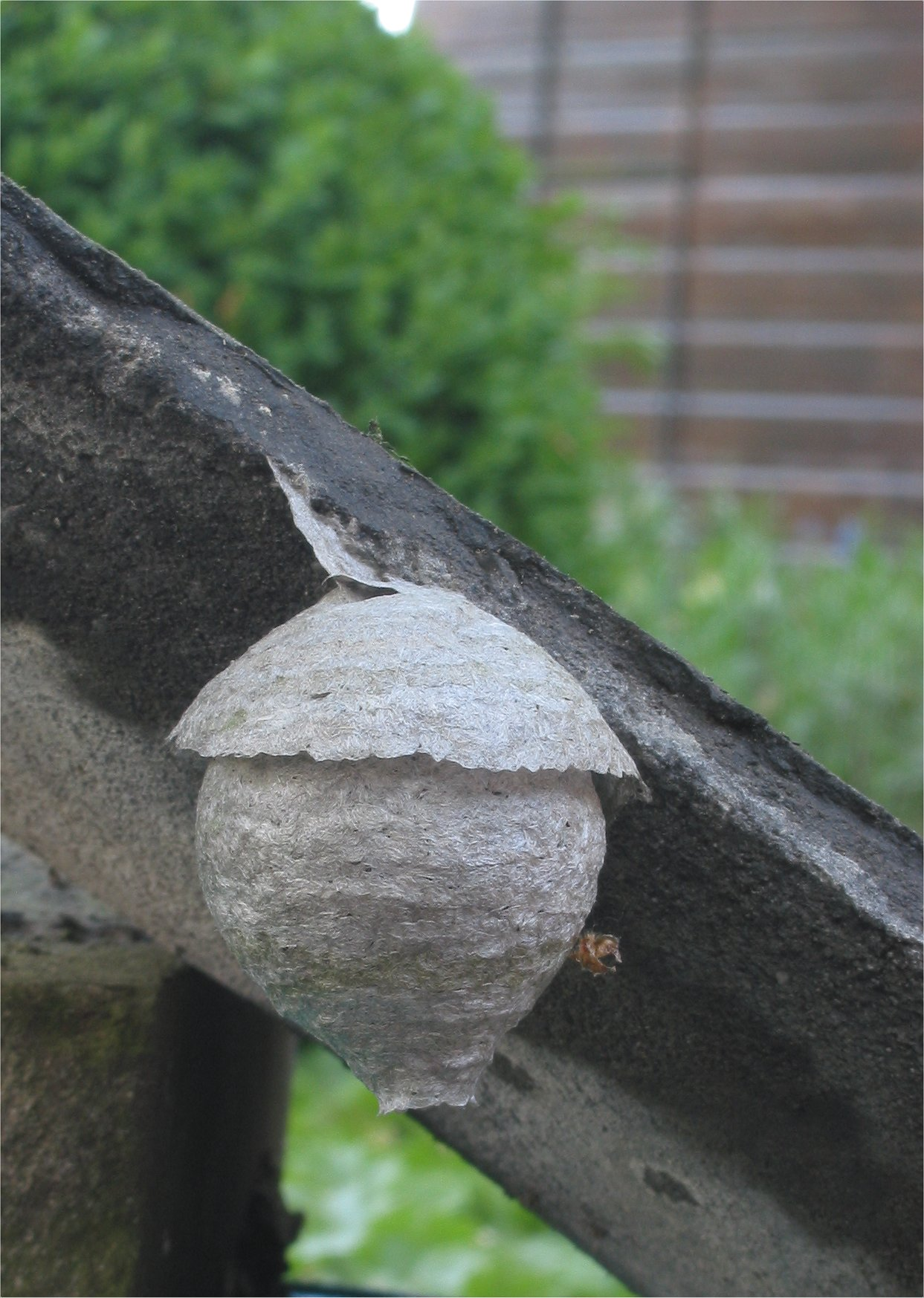 Dolichovespula saxonica joung nest beginning of May